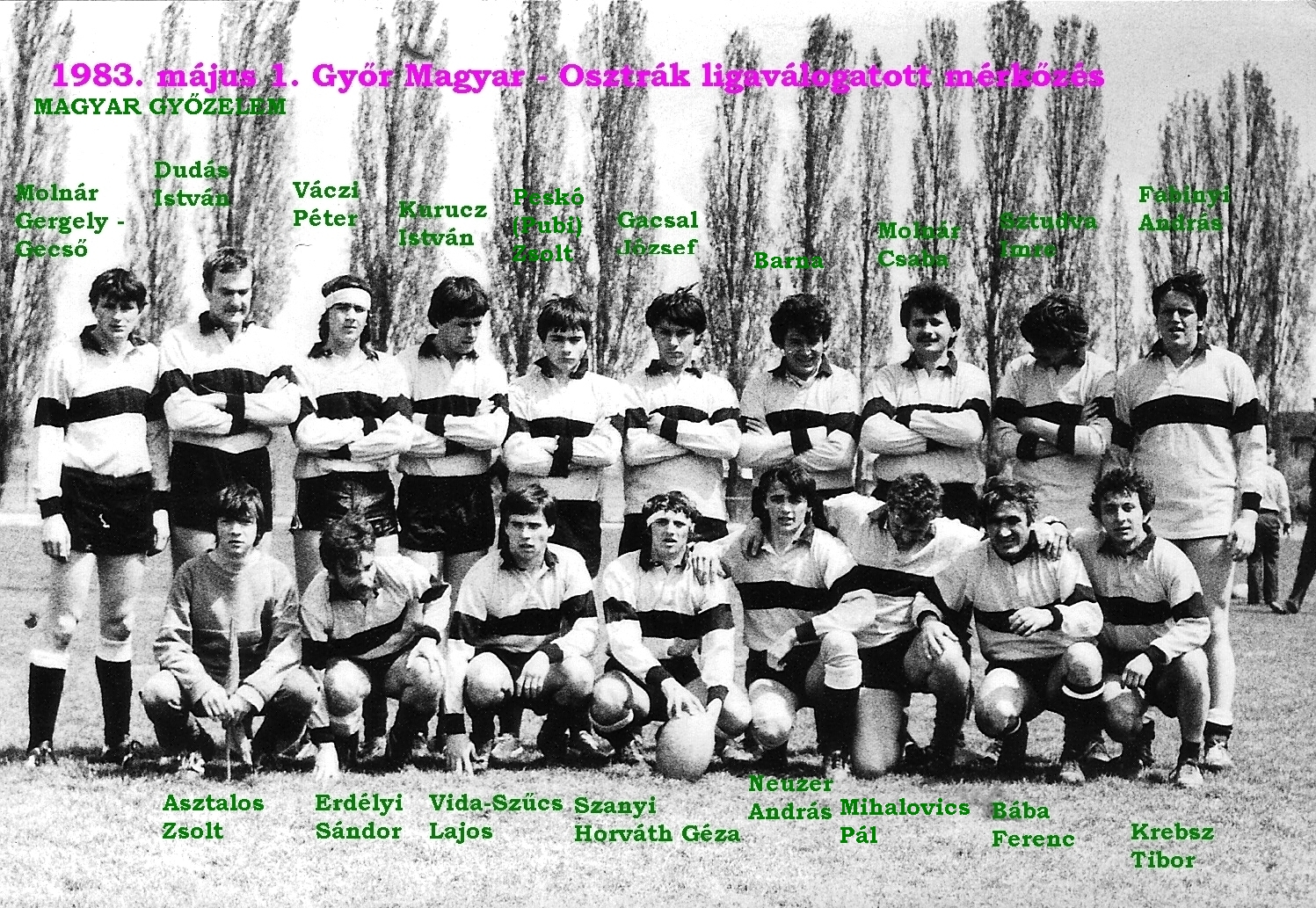 The Hungarian Rugby Natioonal Side on 1 May, 1983, before a match against the Austrian Legue natiuonal side.